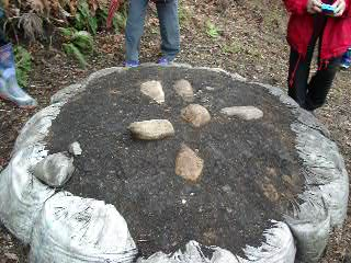 Stone sundial at the Isedotai Site in Kitaakita City, Akita Prefecture, Japan